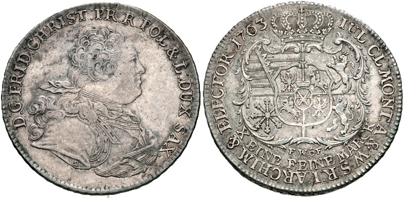 GERMANY, Sachsen-Albertinische Linie (Kurfürstentum). Friedrich Christian. 1763. AR Konventionstaler (41mm, 27.94 g, 12h). Dresden mint. Dated 1763. Draped and armored bust right / Crowned coat-of-arms. Davenport 2677B. Good VF, toned.